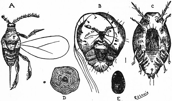 San José Scale (Aspidiotus perniciosus). A, Male scale insect; B, female; C, larva; D, female scale; E, male scale.